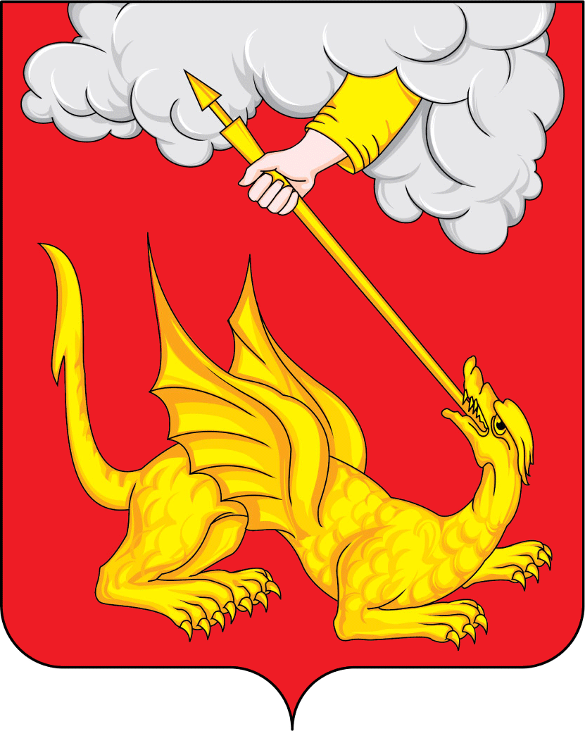 Yegorievsk (Moscow oblast), coat of arms